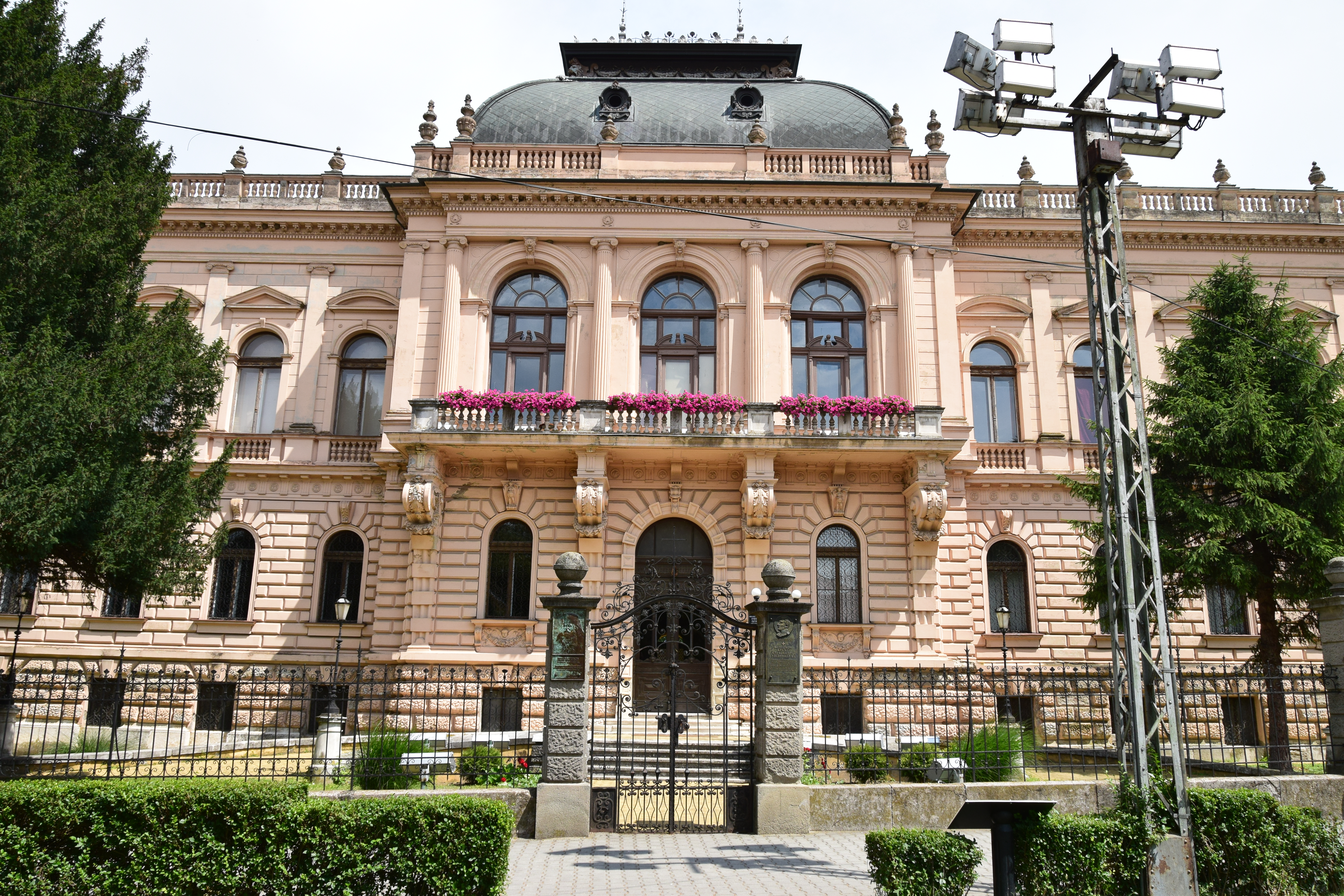 Front facade and entrance to the Patriarchate Court in Sremski Karlovci, Serbia